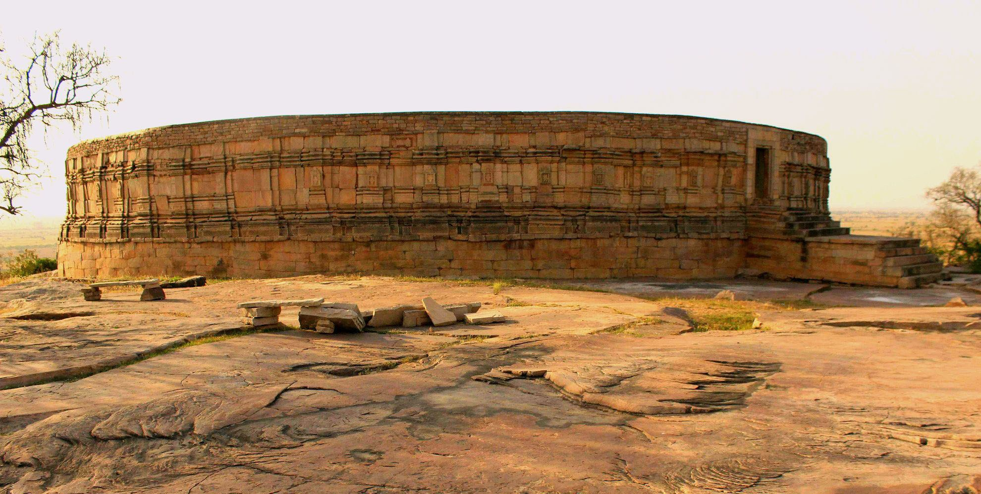 Ekattarso Mahadeva Temple at Mitaoli (Mitavli) in Morena District of Madhya Pradesh, India (ASI entry). This is one of the rarest Hindu temples in India. Its plan is circular and it is dedicated to the Tantric sect of Chausath Yogini. Most of the Hindu temples are based on square or rectangular plan. Circular temples are very rare. It is said that the design of Indian Parliament is inspired by this temple in Morena. It is also a very rare temple as there are only about a half a dozen Chausath Yogini temples in India. A Yogini in Tantra means a practitioner of Yoga, who has controlled her desires and reached a higher stage. They are related to the Matrikas and are basically various manifestations of the Divine Durga. This association with various forms of Durga gave rise to the cult of Chausath (64) Yoginis over time. The Chausath Yogini temple of Morena has an outer circle of 64 subsidiary shrines of Shiva with a central shrine of the Yogini. According to an inscription dated Vikram Samvat 1380 (1323 CE), it was built by a king named Devapala.